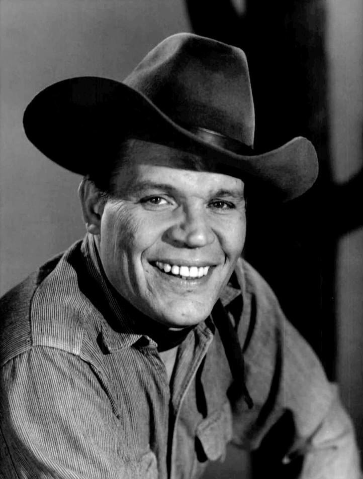 Photo of actor Neville Brand from the television program Laredo.